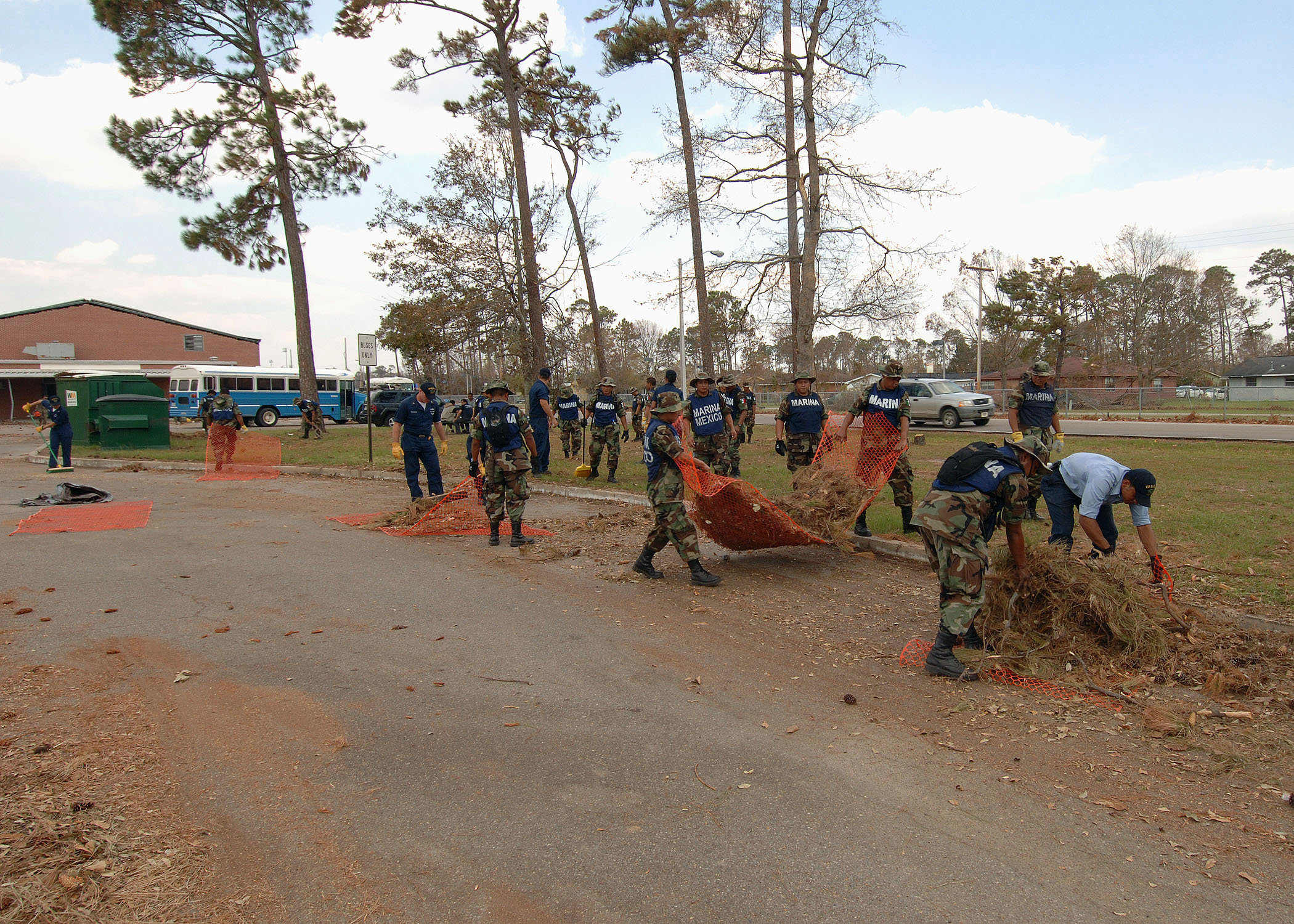 D'iberville, Miss. (Sept. 9, 2005) - U.S. Navy Sailors assigned to the amphibious assault ship USS Bataan (LHD 5) and Mexican Marines as they remove debris at D'iberville Elementary School, in support of Hurricane Katrina Relief efforts. The school will be used as shelter, providing food and medicine for the evacuees. The Navy's involvement in the humanitarian assistance operations is being led by the Federal Emergency Management Agency (FEMA), in conjunction with the Department of Defense. U.S. Navy Photograph by Photographer's Mate 2nd Class Michael Sandberg (RELEASED)